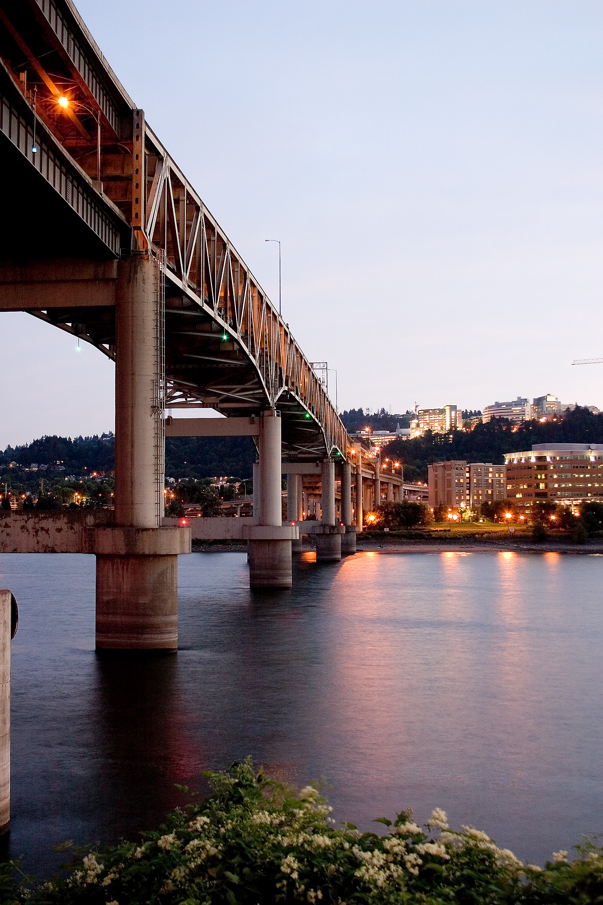 The Marquam Bridge, in Portland, Oregon. It carries Interstate-5 over the Willamette River.